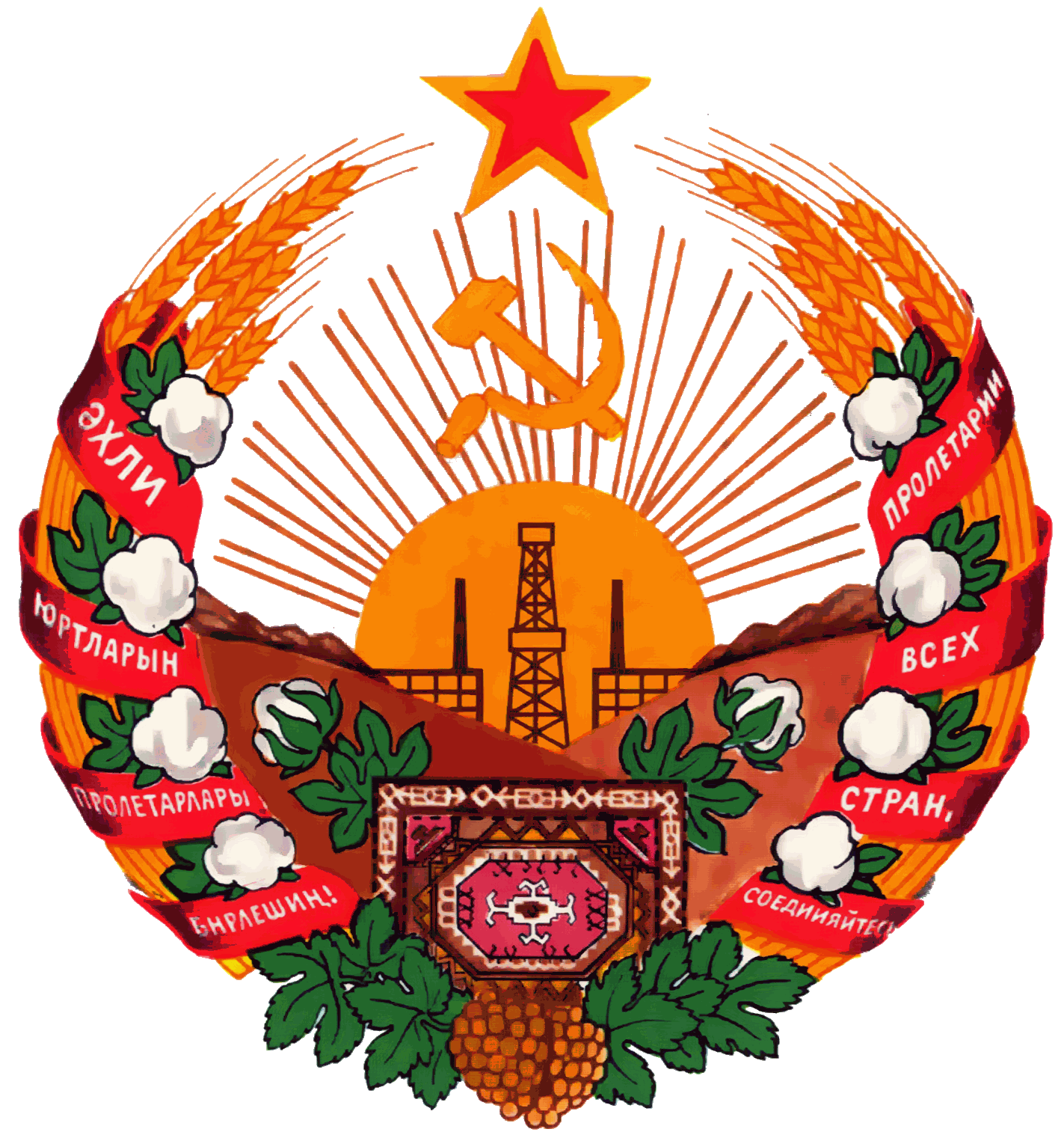 Coat_of_arms_of_Turkmen_SSR.png